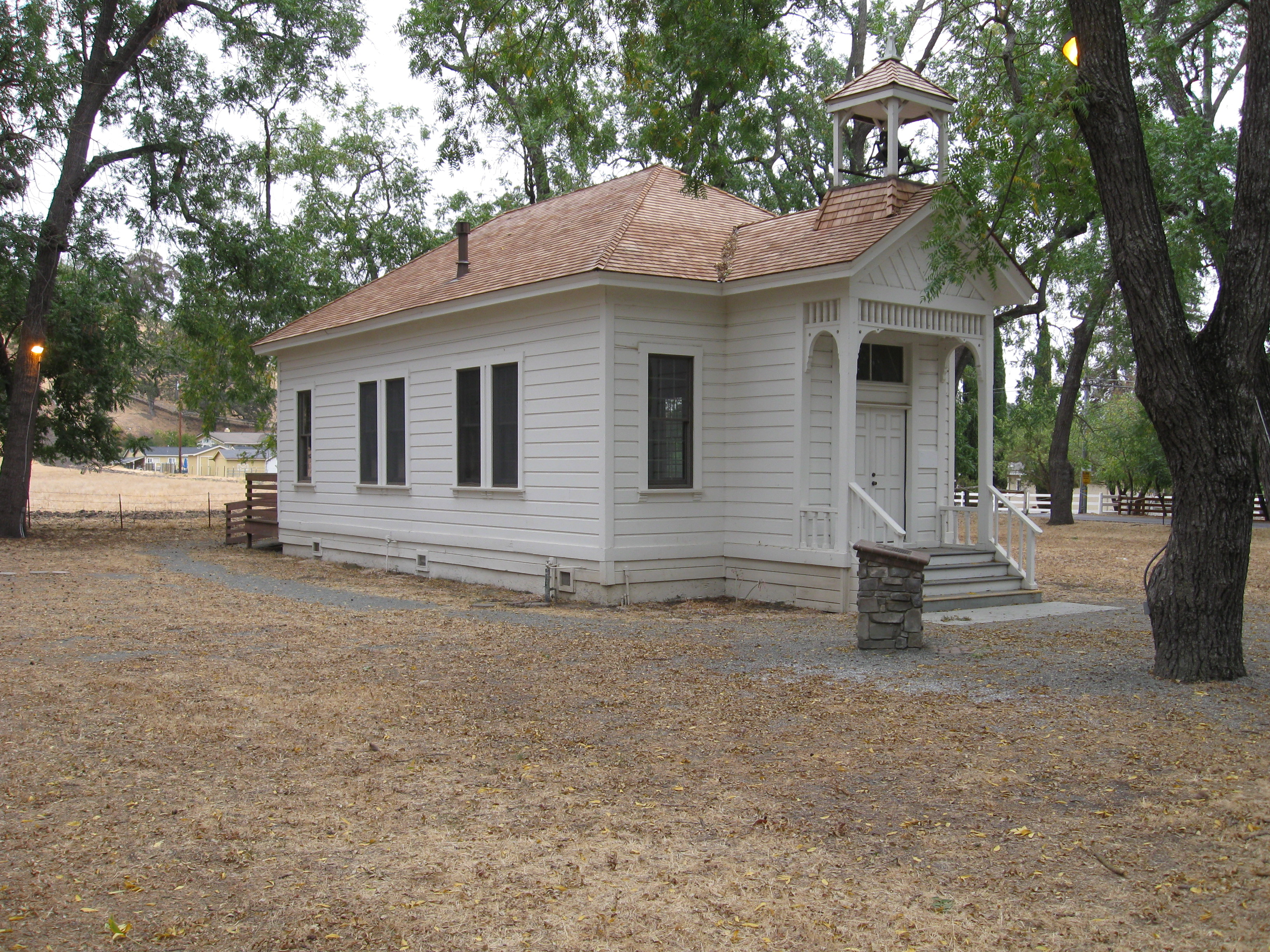 Tassajara One Room School, 1650 Finley Rd. Danville